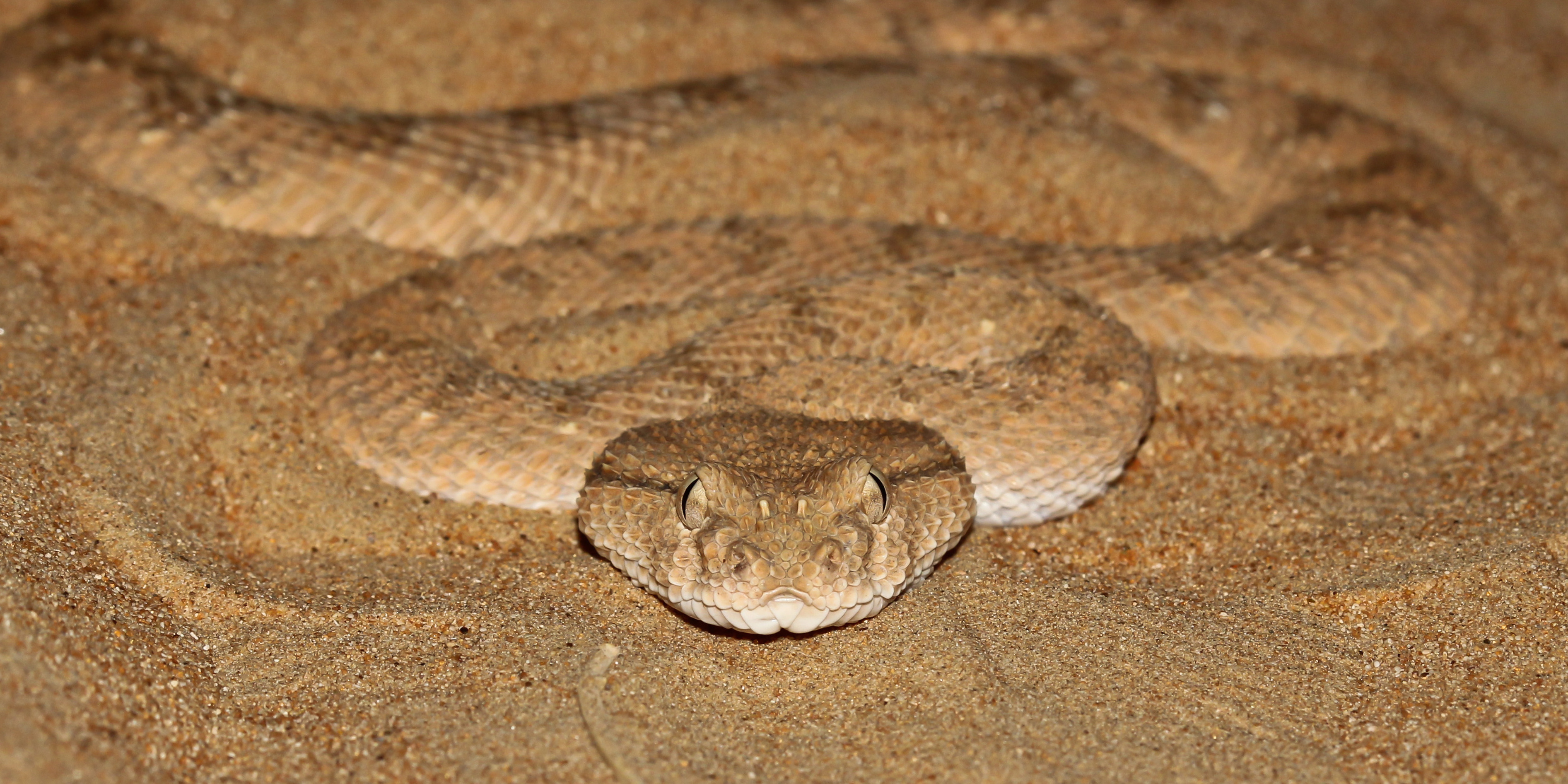 Arabian Horned viper without horns from United Arab Emirates